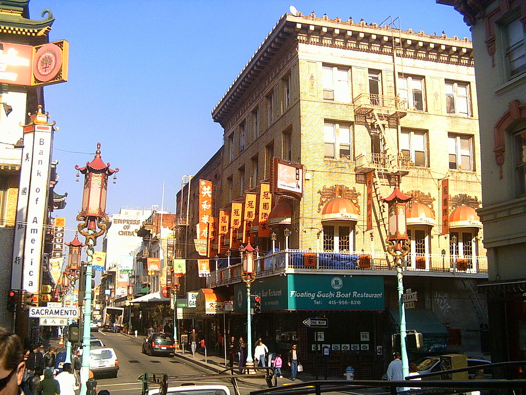 Chinatown in San Francisco